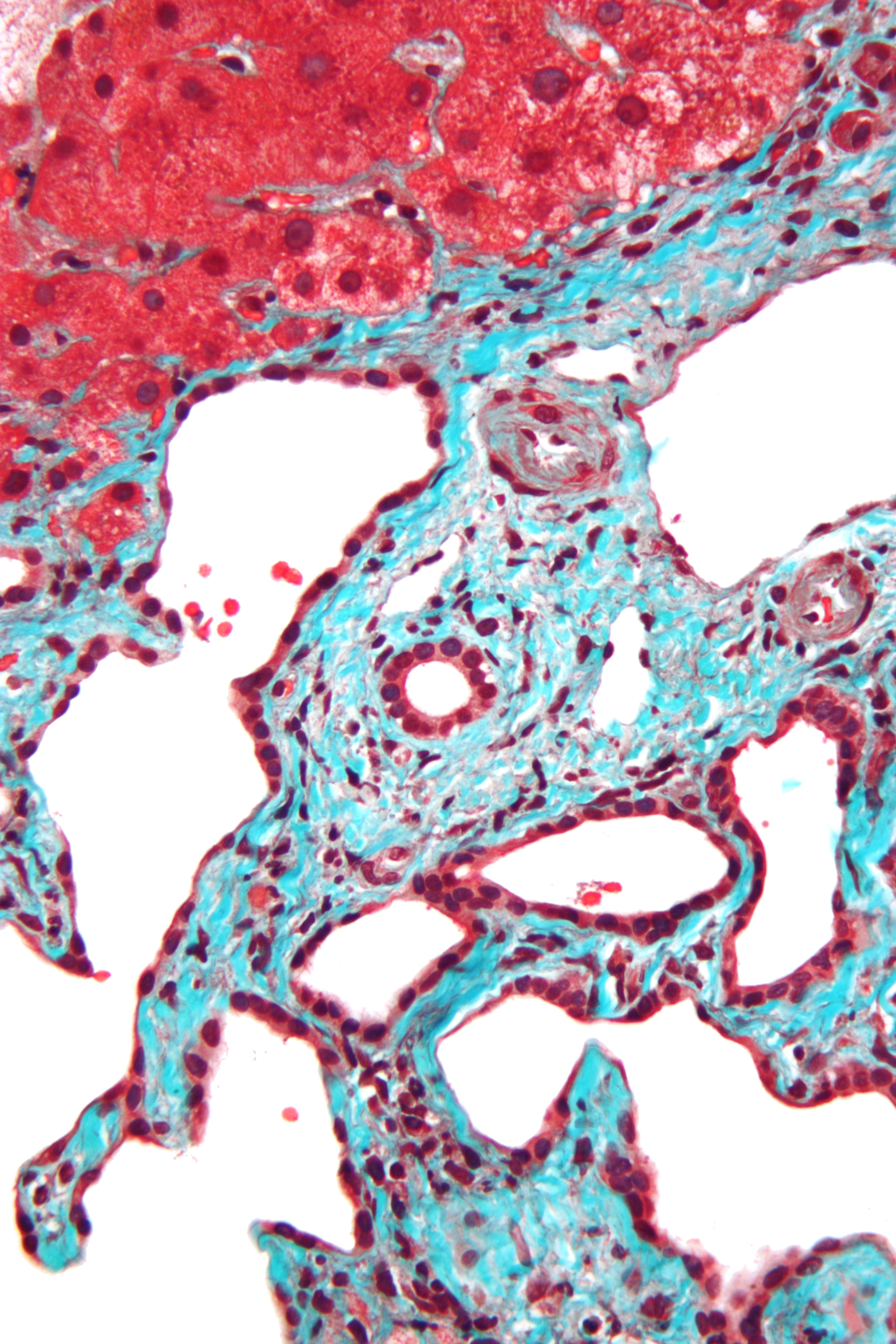 Intermediate magnification micrograph of a bile duct hamartoma, also von Meyenburg complex and Meyenburg complex, seen in a liver of an individual with polycystic kidney disease and cholestasis. Trichrome stain. Bile duct hamartomas are clusters of bile ducts surrounded by a fibrous stroma. They are classically seen in cystic liver disease, but are occasionally present in a normal livers. Related images Low mag. Intermed. mag. High mag.